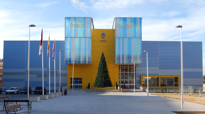 Front entrance to the Sports Center of Guadalajara, Spain.